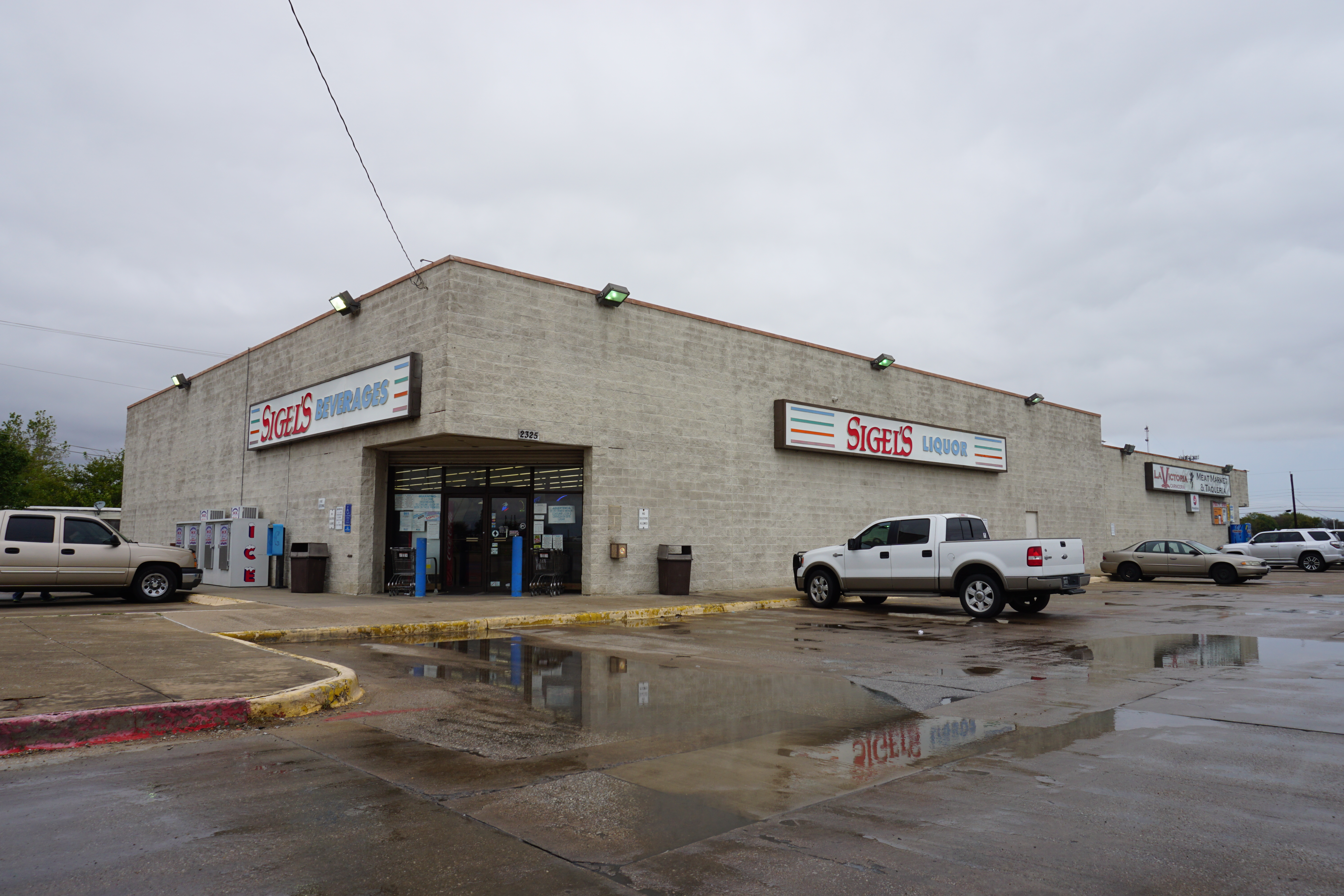 Sigel's Liquor and La Victoria Carniceria in Mobile City, Texas (United States).